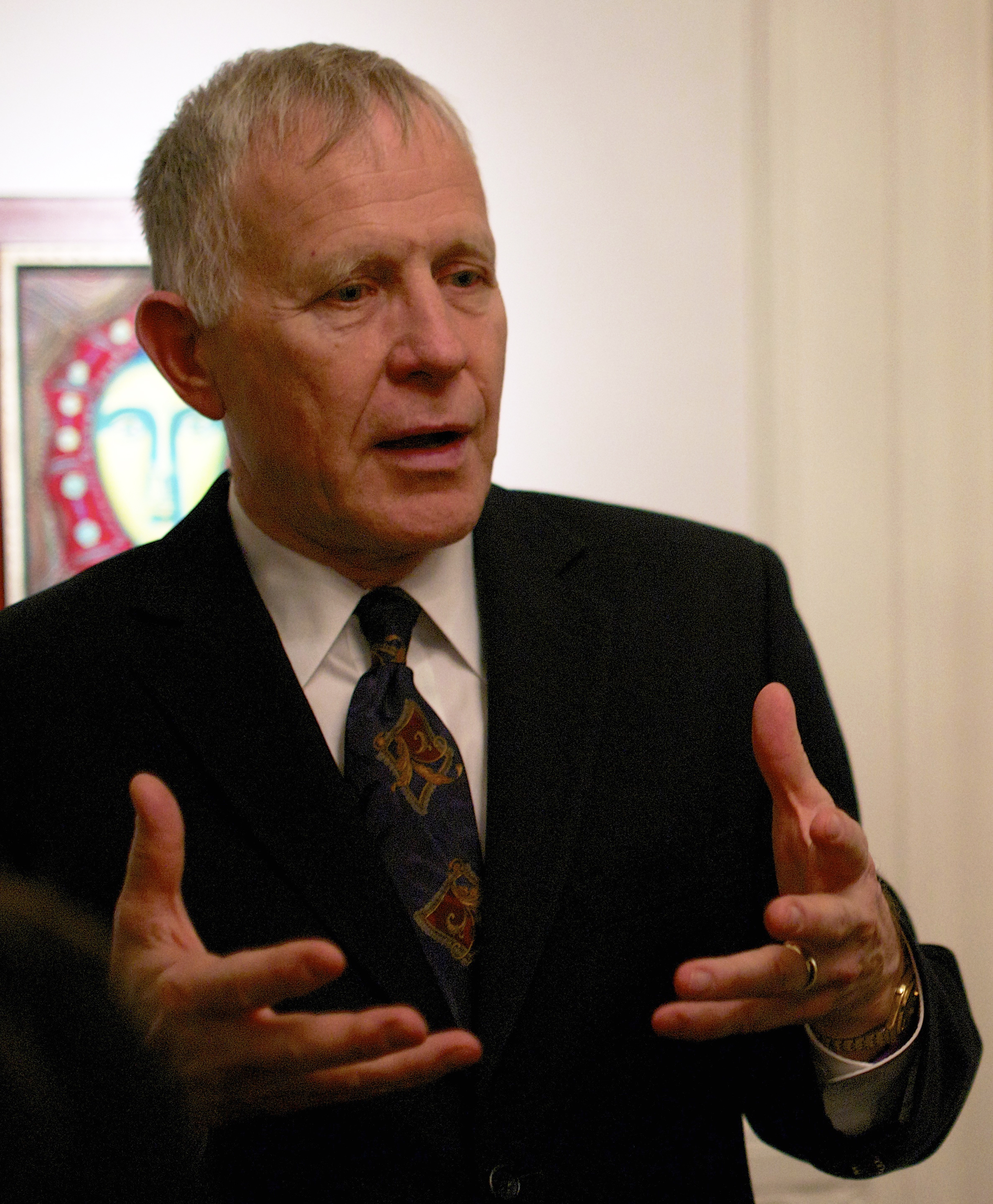 Cropped photo of Dennis Shepard during Judy Shepard and Dennis Shepard's Visit to Sweden December 4-5, 2013